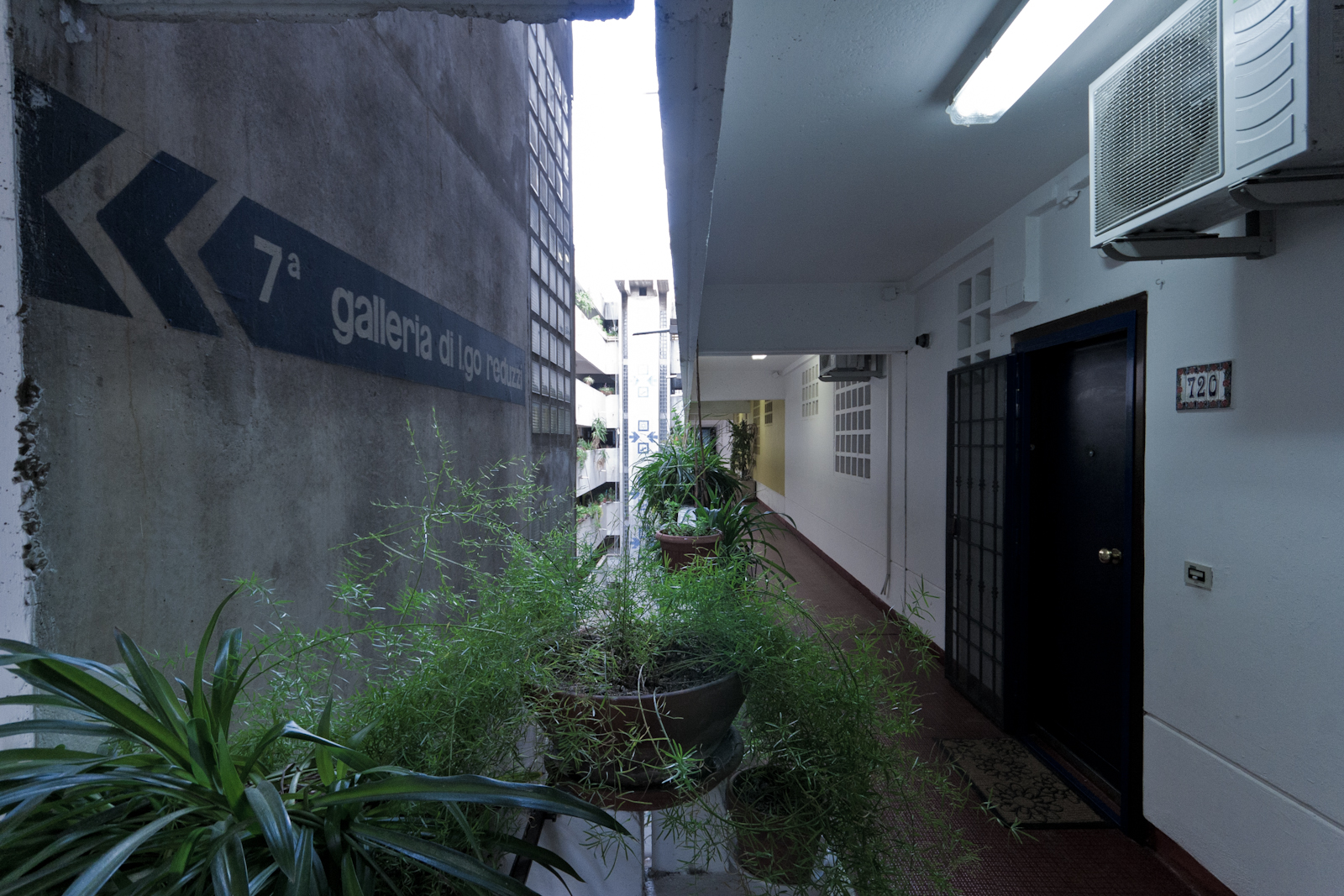 Corviale, Rome, Italy